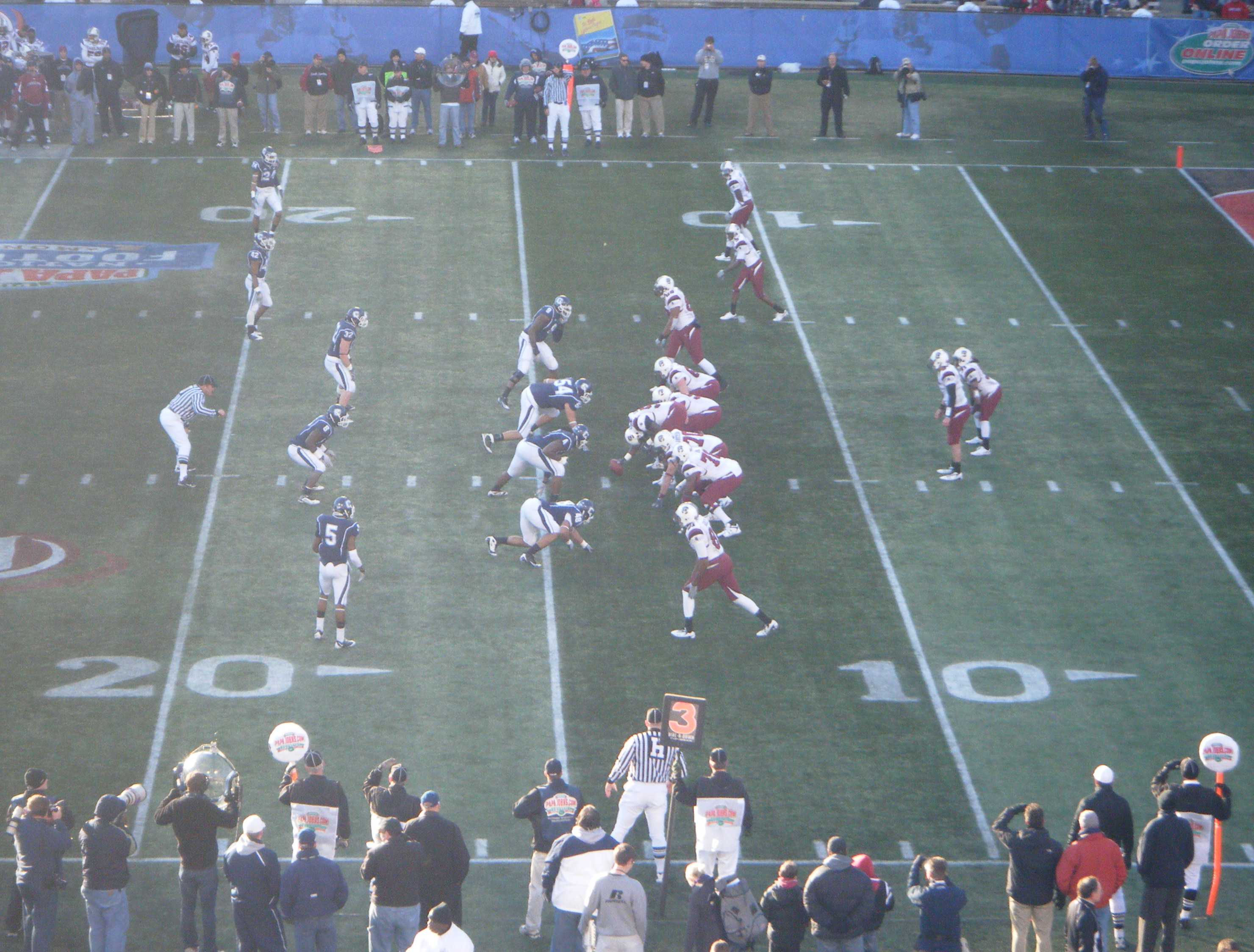 South Carolina on offense in the third quarter of the en:2010 Bowl.